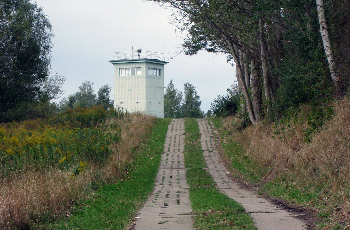 Kolonnenweg leading up to a control tower on the former inner German border at Hötensleben